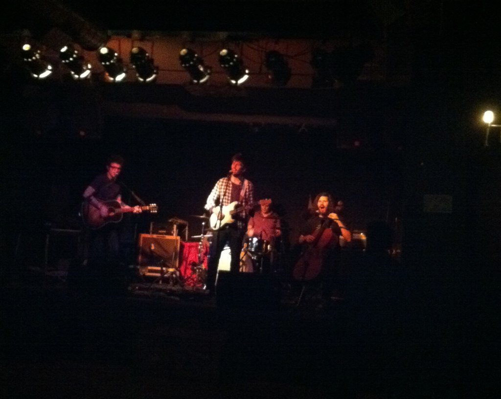 The French band Revolver playing at the Smiling Moose nightclub, Pittsburgh, Pennsylvania, USA.